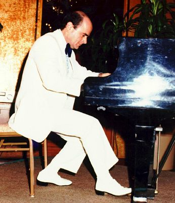 Rami Bar-Niv playing the piano